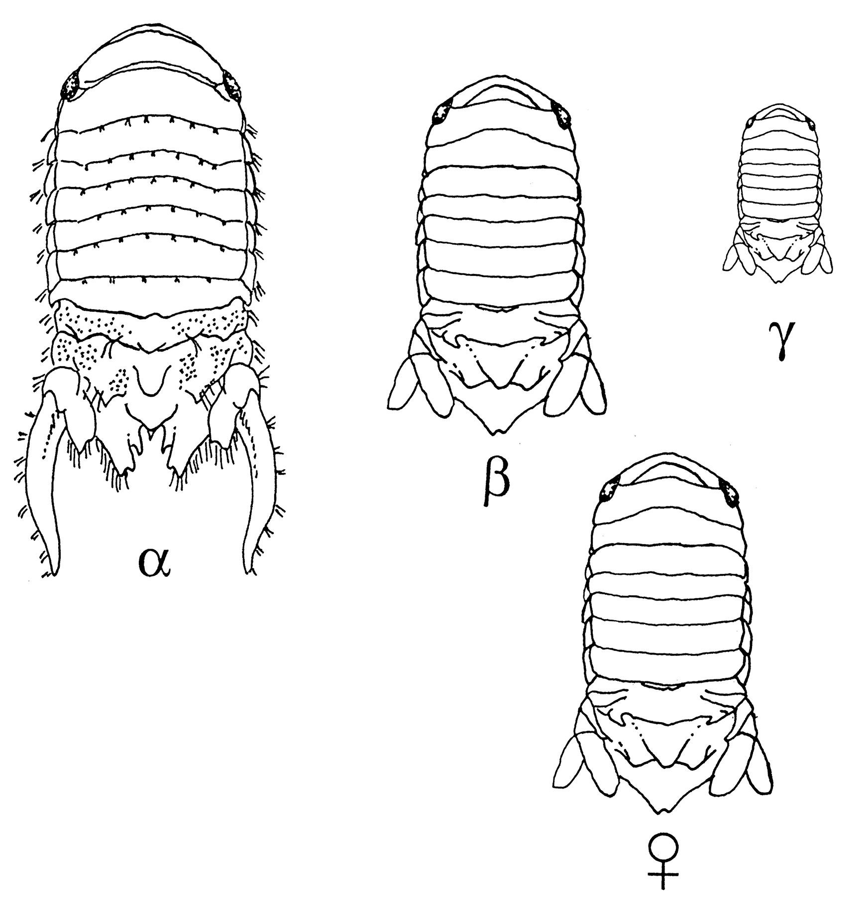 An illustration showing the relative sizes and shapes of the different forms of Paracerceis sculpta